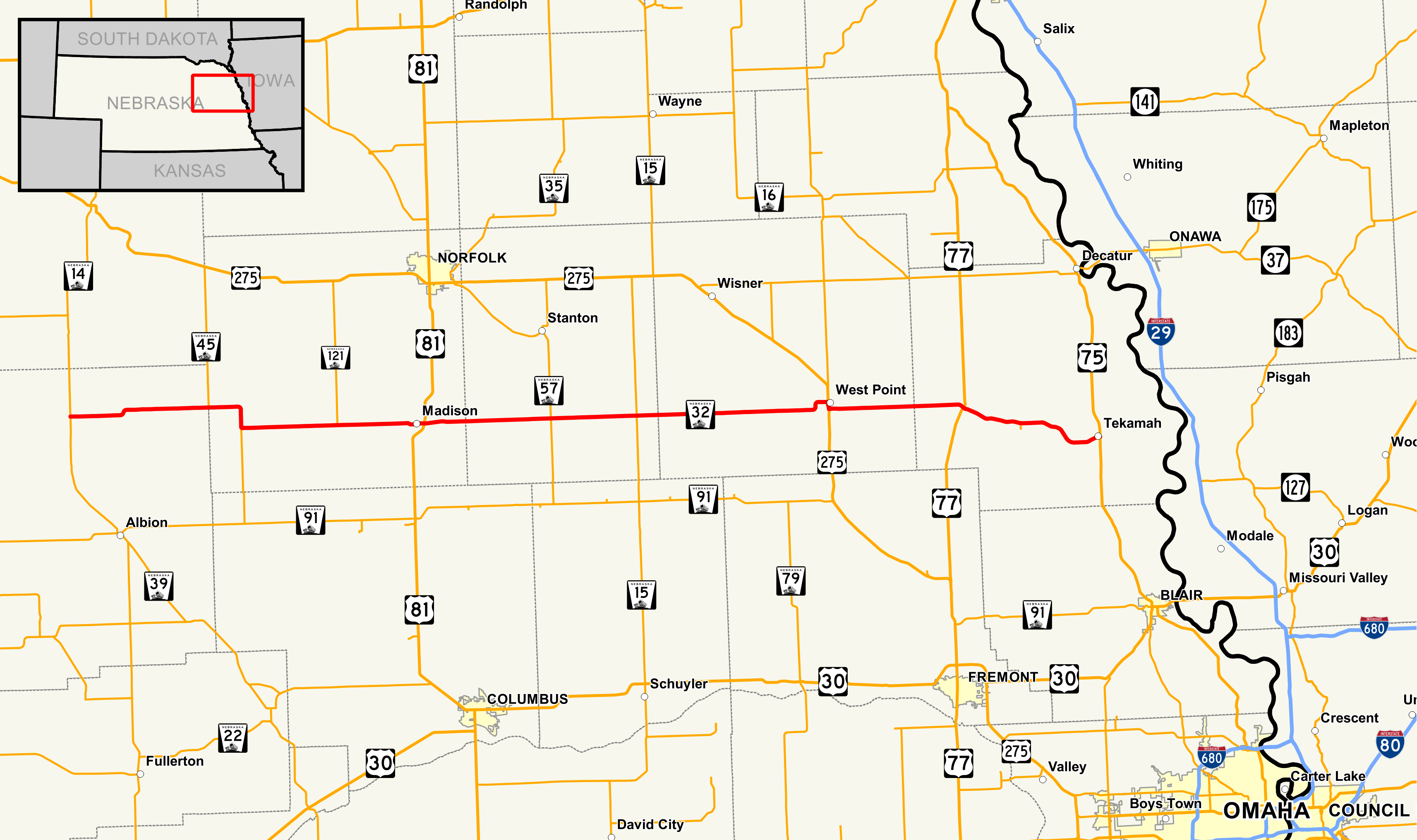 Map of Nebraska Highway 32 Data Sources: Nebraska Highways - - Dec 2016 Nebraska County Boundaries - - Dec 2016 Nebraska City Boundaries - - Dec 2016 This PNG graphic was created with QGIS